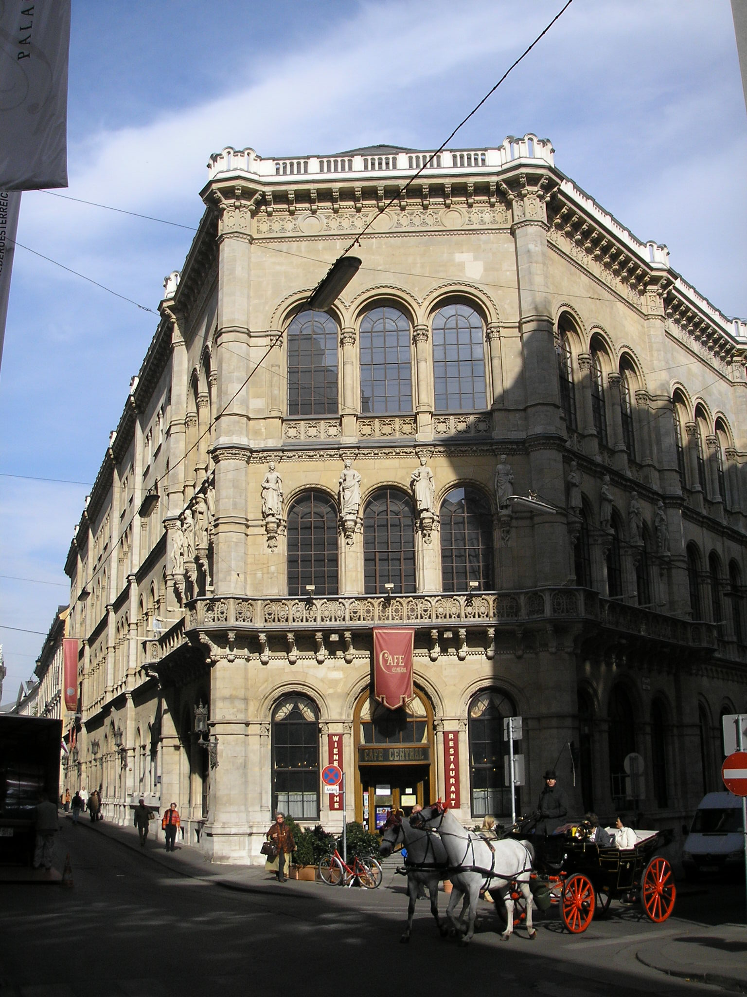 View of the Palais Ferstel and the Café Central in Vienna's first district Innere Stadt, at Herrengasse.